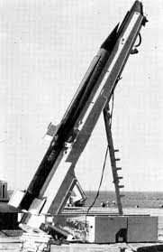 Many Centaure sounding rockets have been used for X-ray astronomy, including a Centaure launched on November 3, 1968, at 03:19 UTC and a second launched on November 7, 1968, at 03:05 UTC.